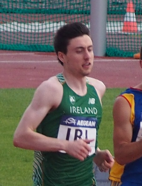 Mark English during the 800 m events at 2015 European Team Championships First League.